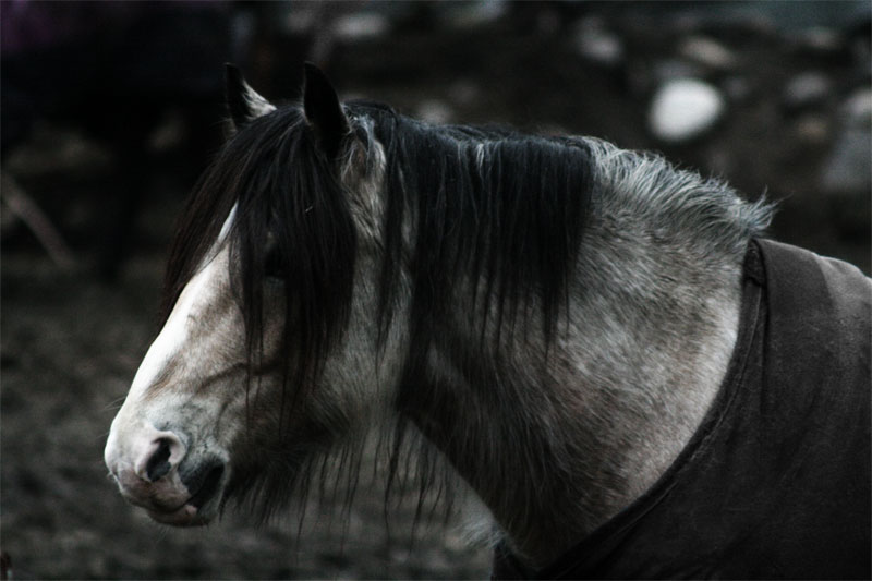 Image of Tungdøl. The name of the horse is Norlys.